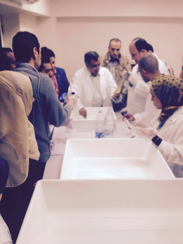 EICAP Master Program Students